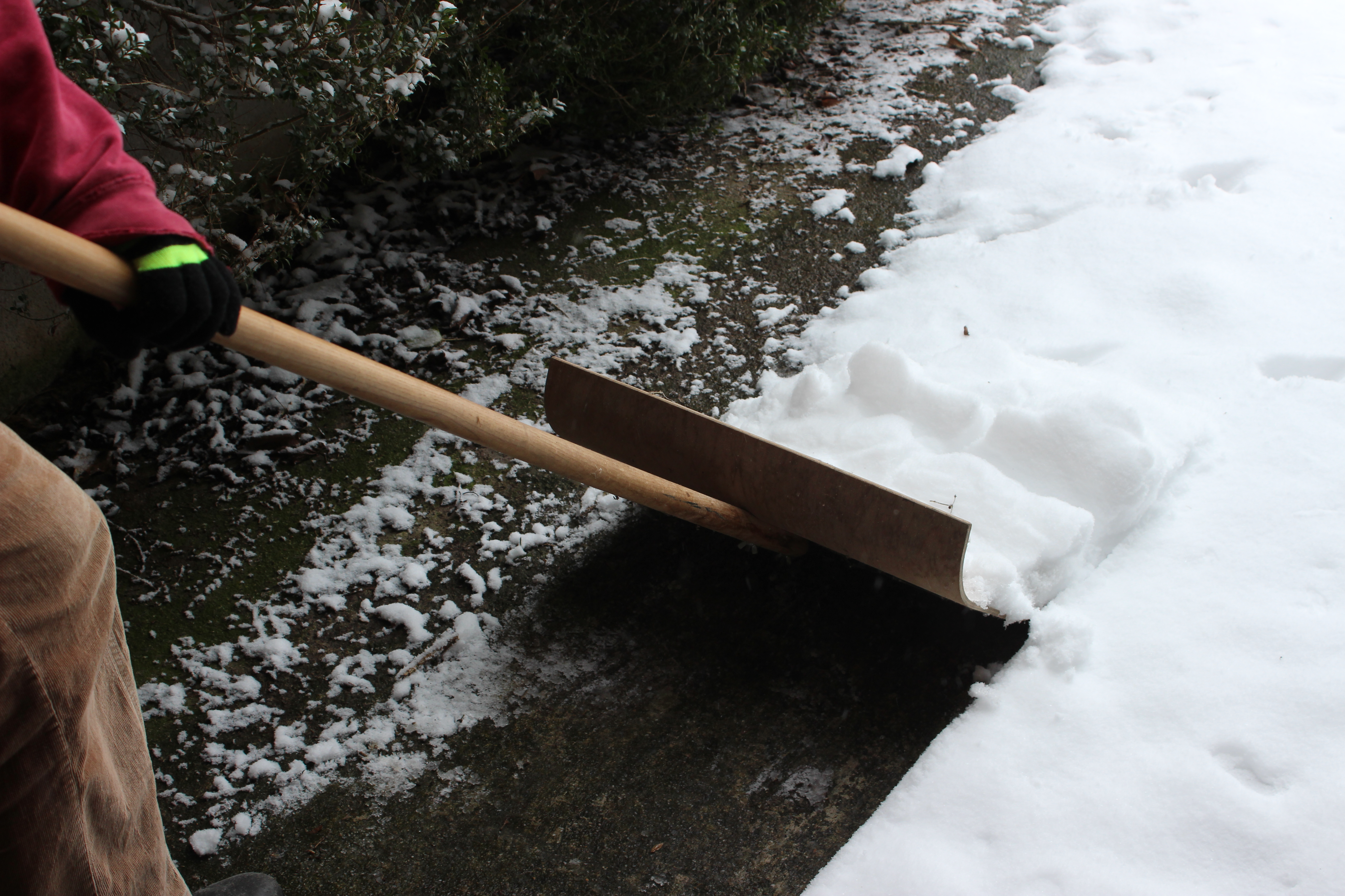 Shoveling snow